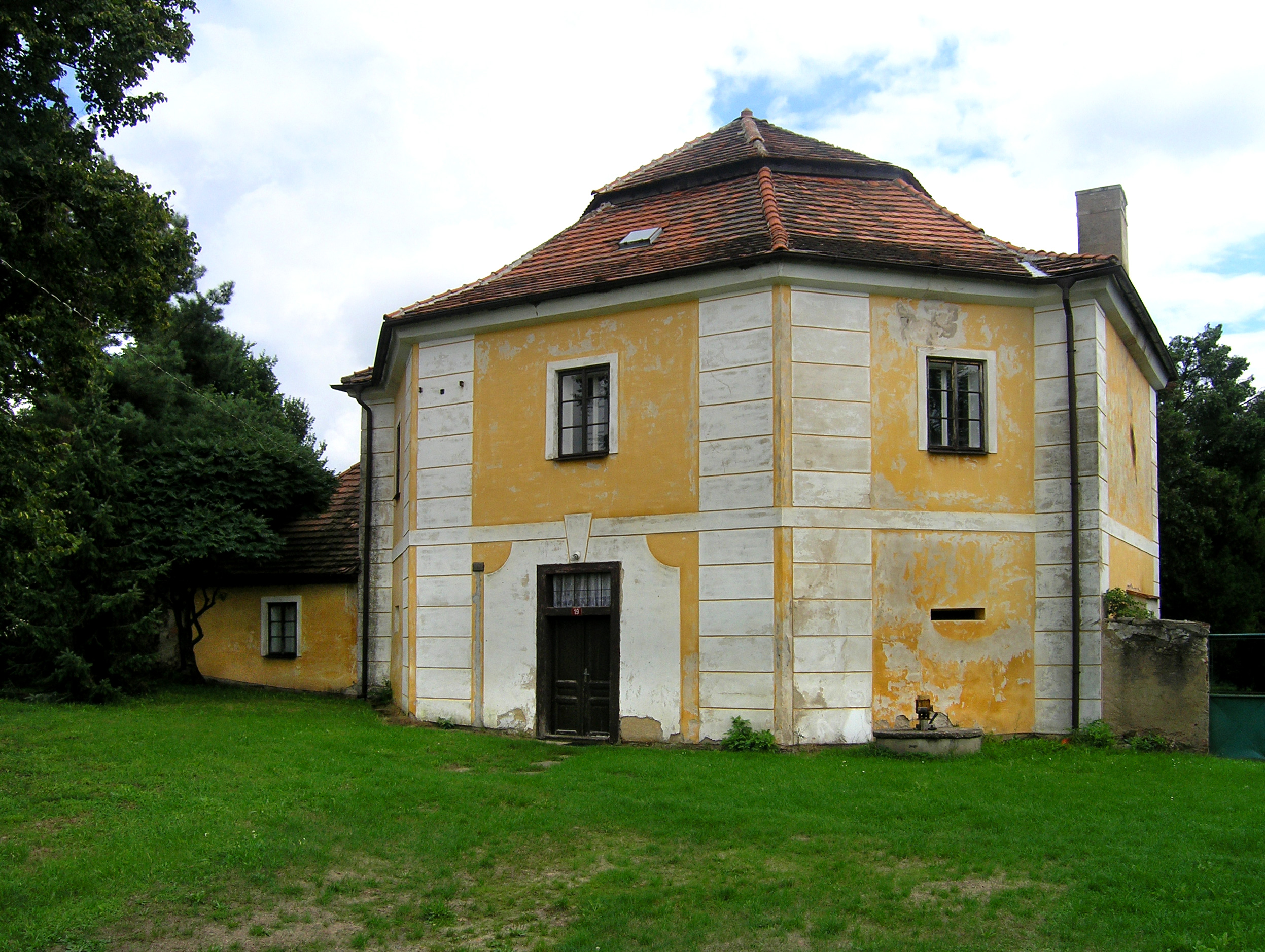 Small castle in Horušice, Czech Republic